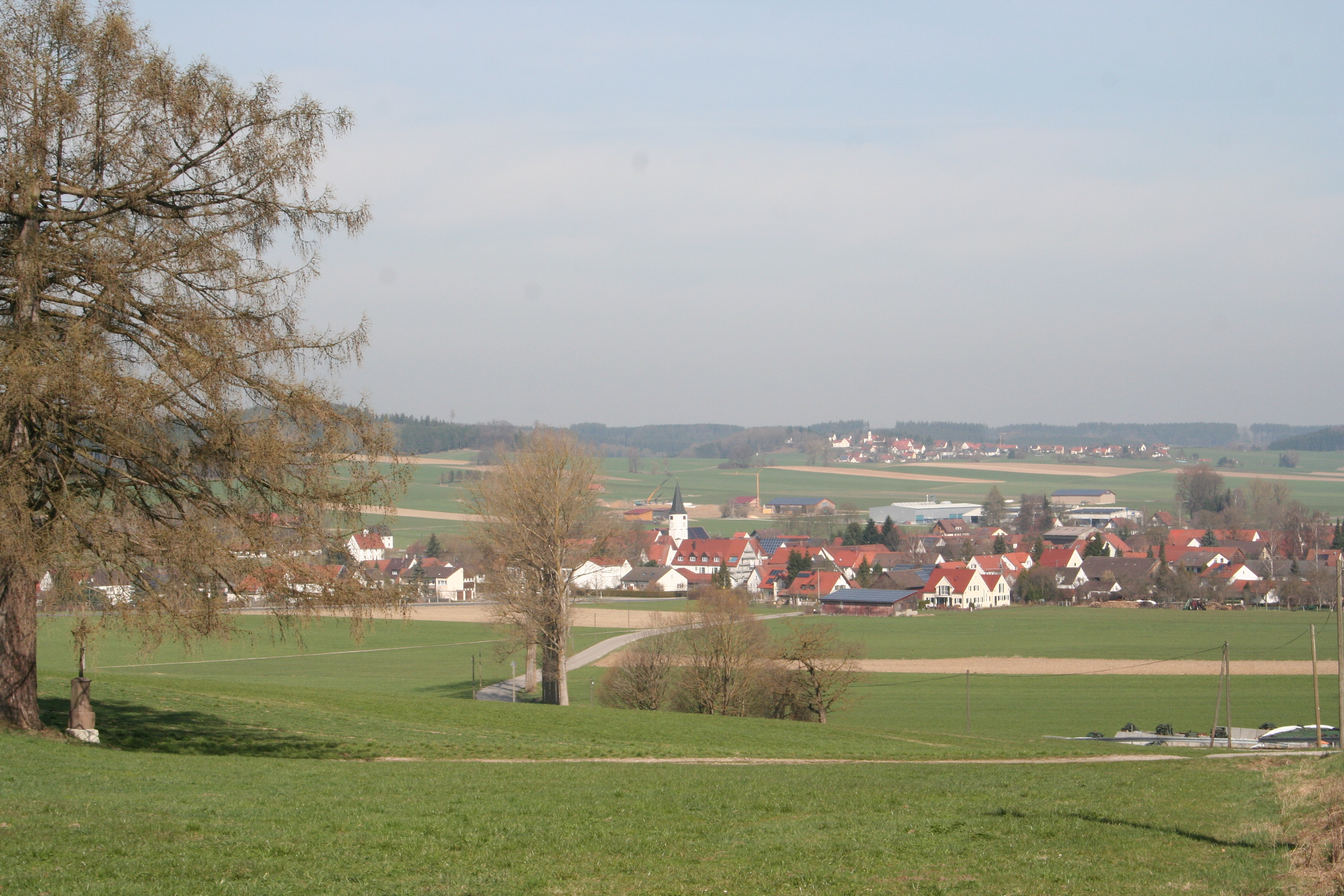 look at Aletshausen from the road between Aletshausen and Wasserberg